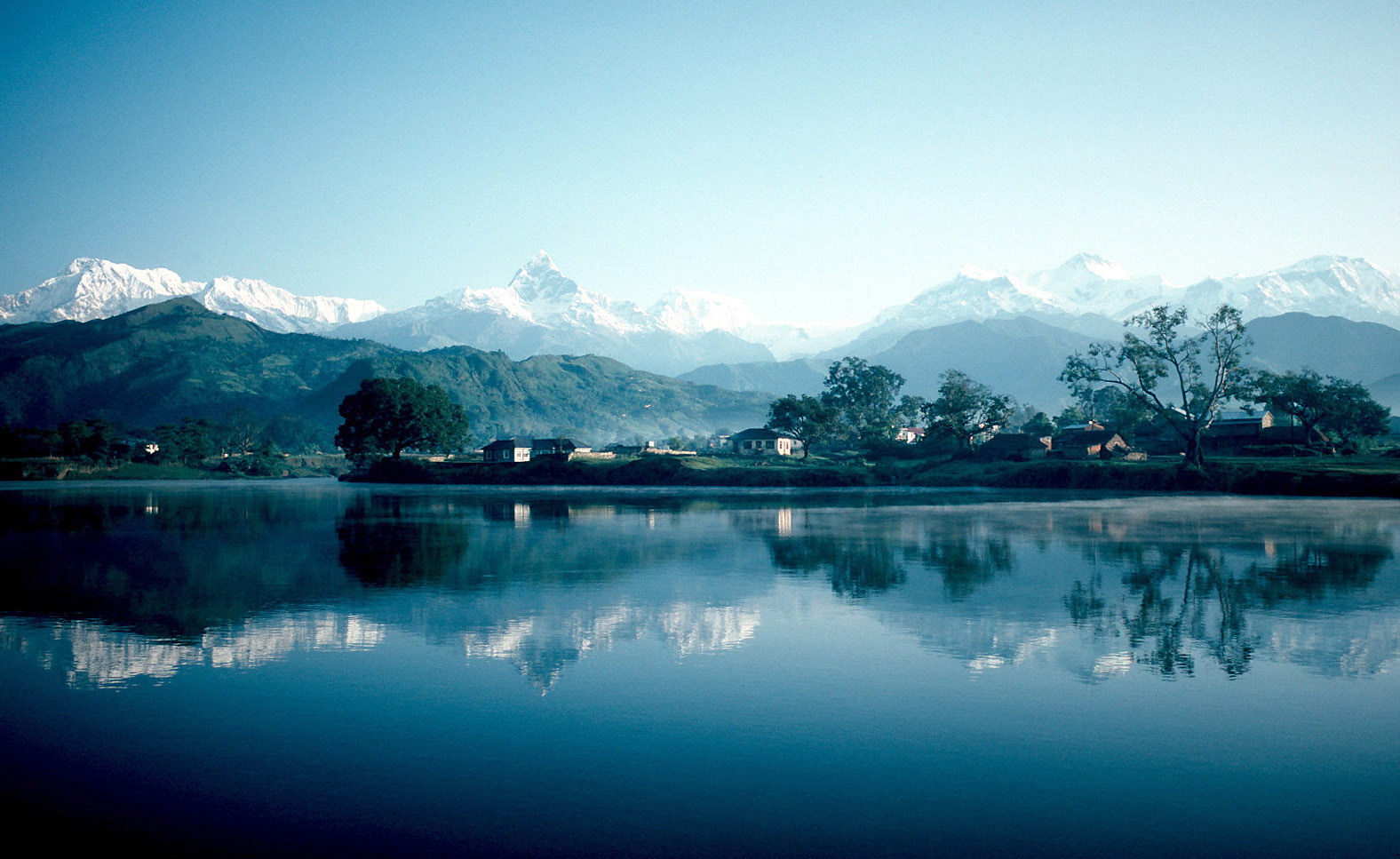 Pokhara and Phewa Lake. In the background all Annapurna summits. From left to the right: Annapurna South, Annapurna I with the snow covered Hiunchuli in front, Machapucharé (steep summit left of the image center), Annapurna III (image center in the background), Annapurna IV, Annapurna II, and Lamjung Himal.